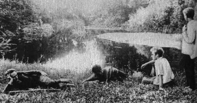 Daniil Andreev with friends nearby Nerussa river - year 1932. In "Rose of the World" book Andreev writes that nearby Nerussa river he had very clear expirience of the nature elementals, including the elemental of Nerussa river.